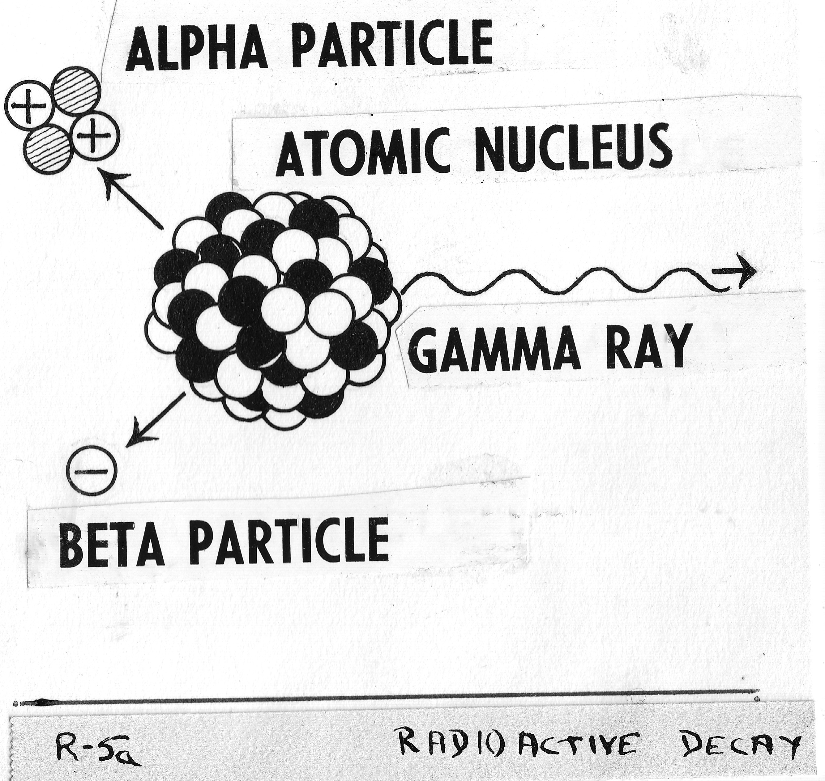 Raw image from Pearson Scott Foresman donation